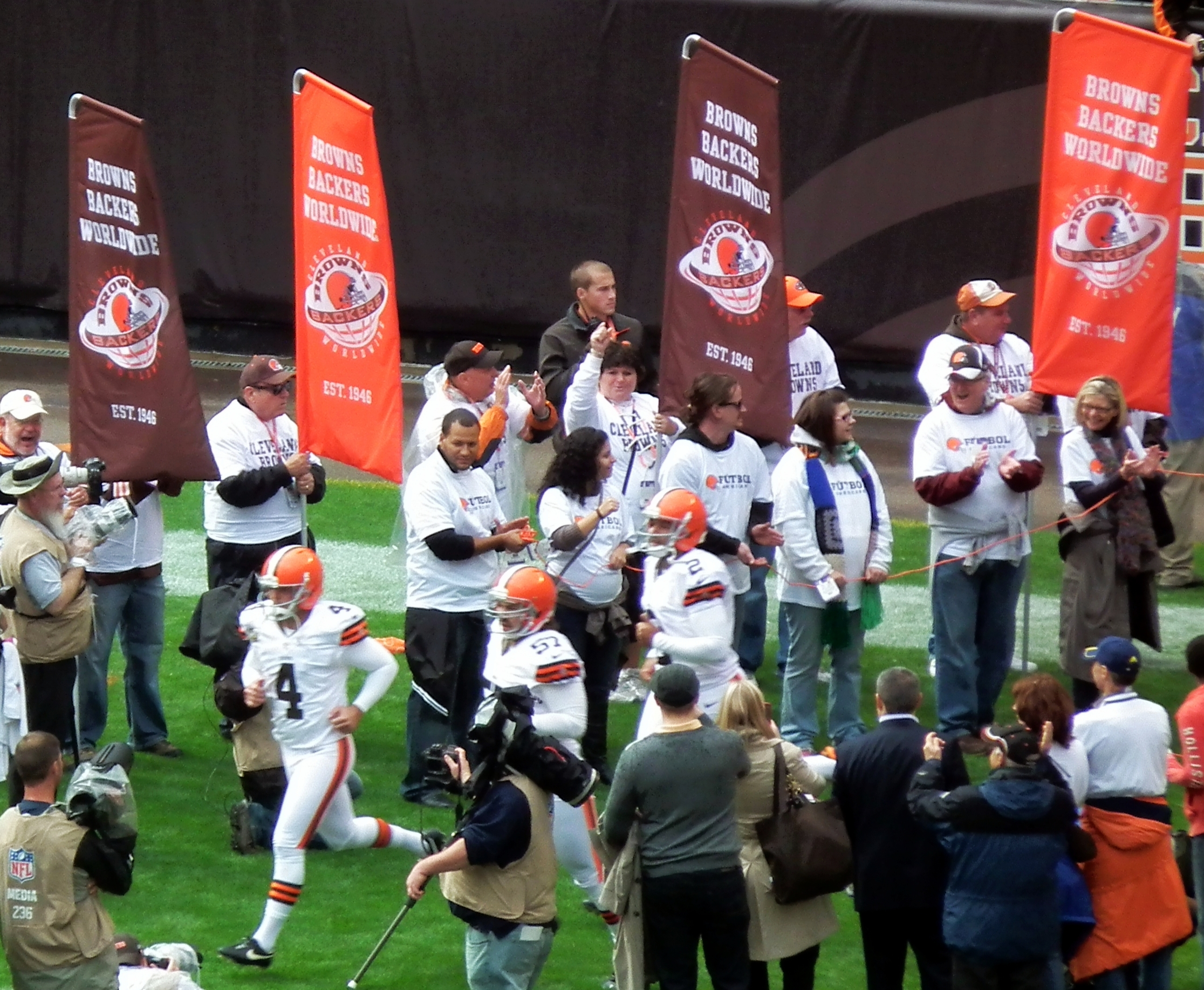 Cleveland Browns placekicker Phil Dawson runs onto the field before a game in 2012, followed by punter Reggie Hodges.